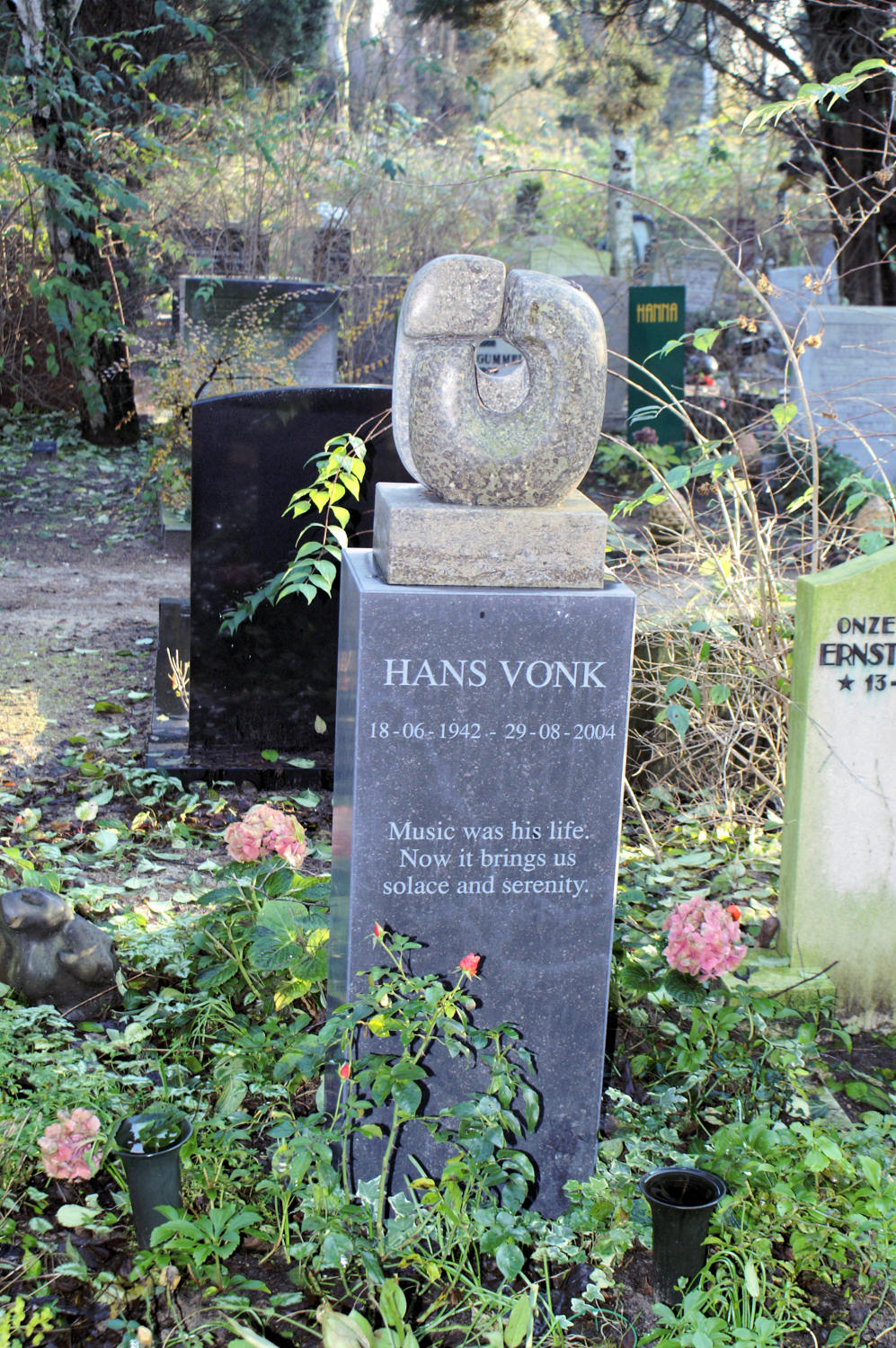 Hans Vonk, conductor, 1942-2004. "Music was his life. Now it brings us solace and serenity."